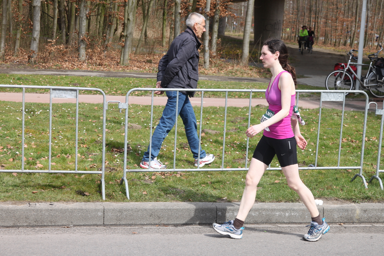 Walking and running woman during the marathon in Rotterdam